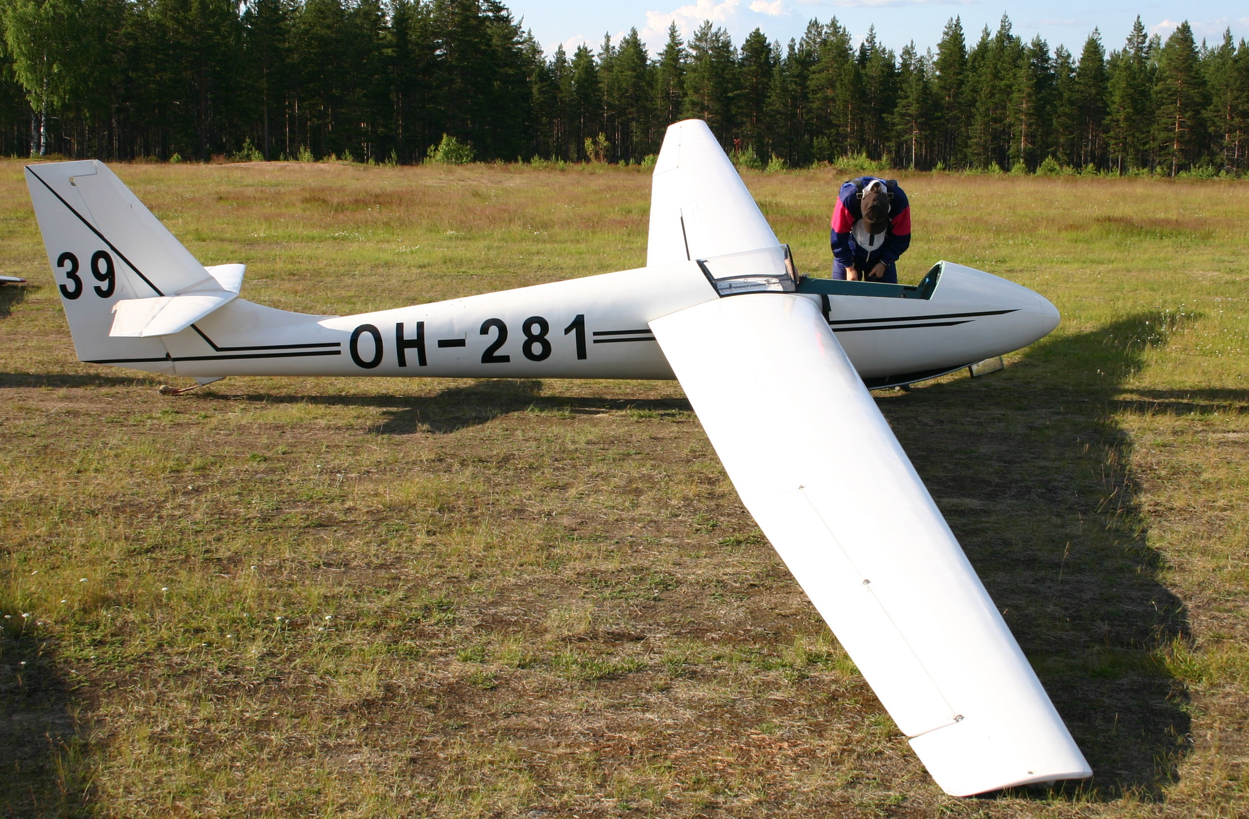 PIK-16 sailplane at Jämijärvi airfield